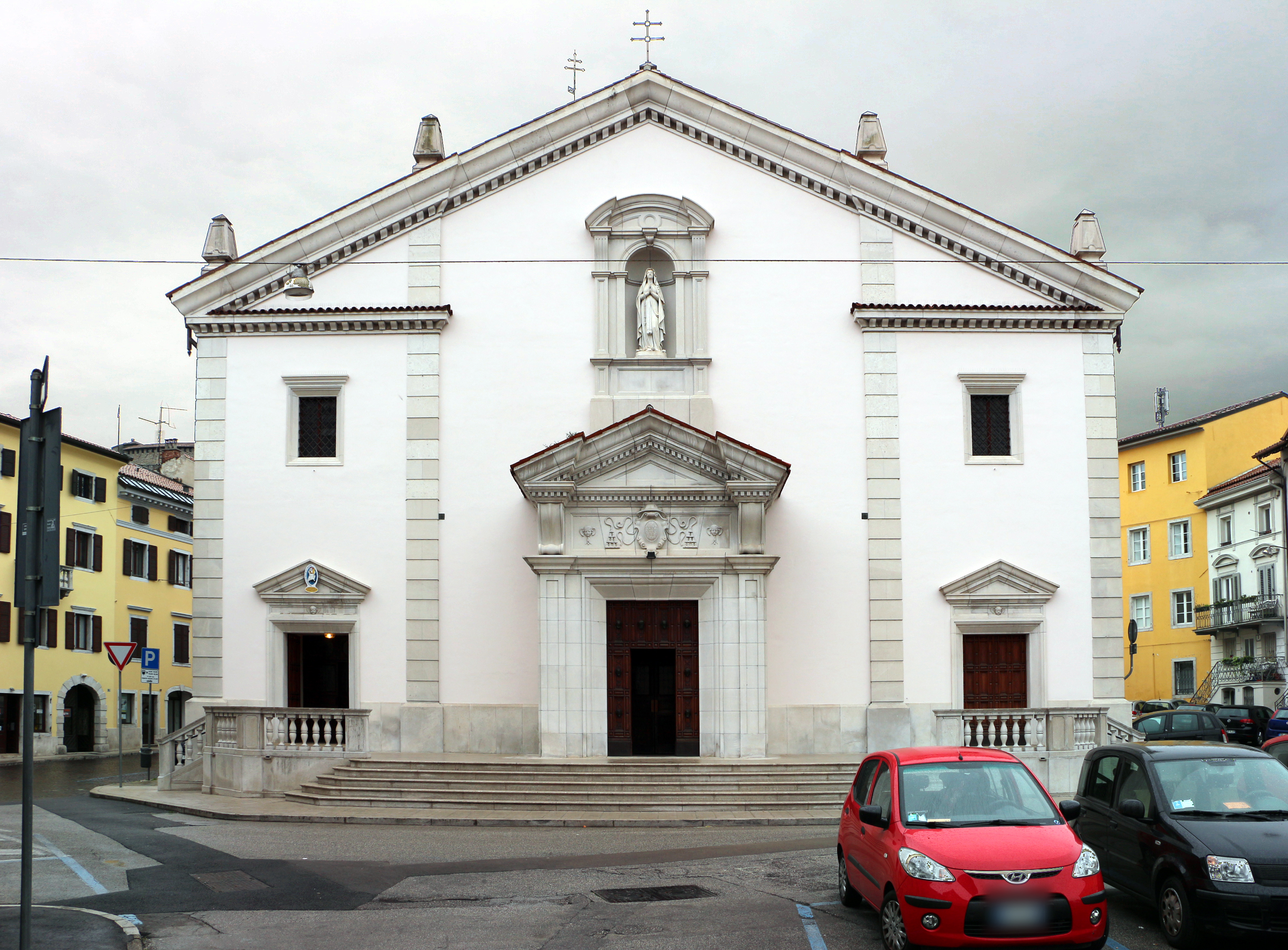 Gorizia